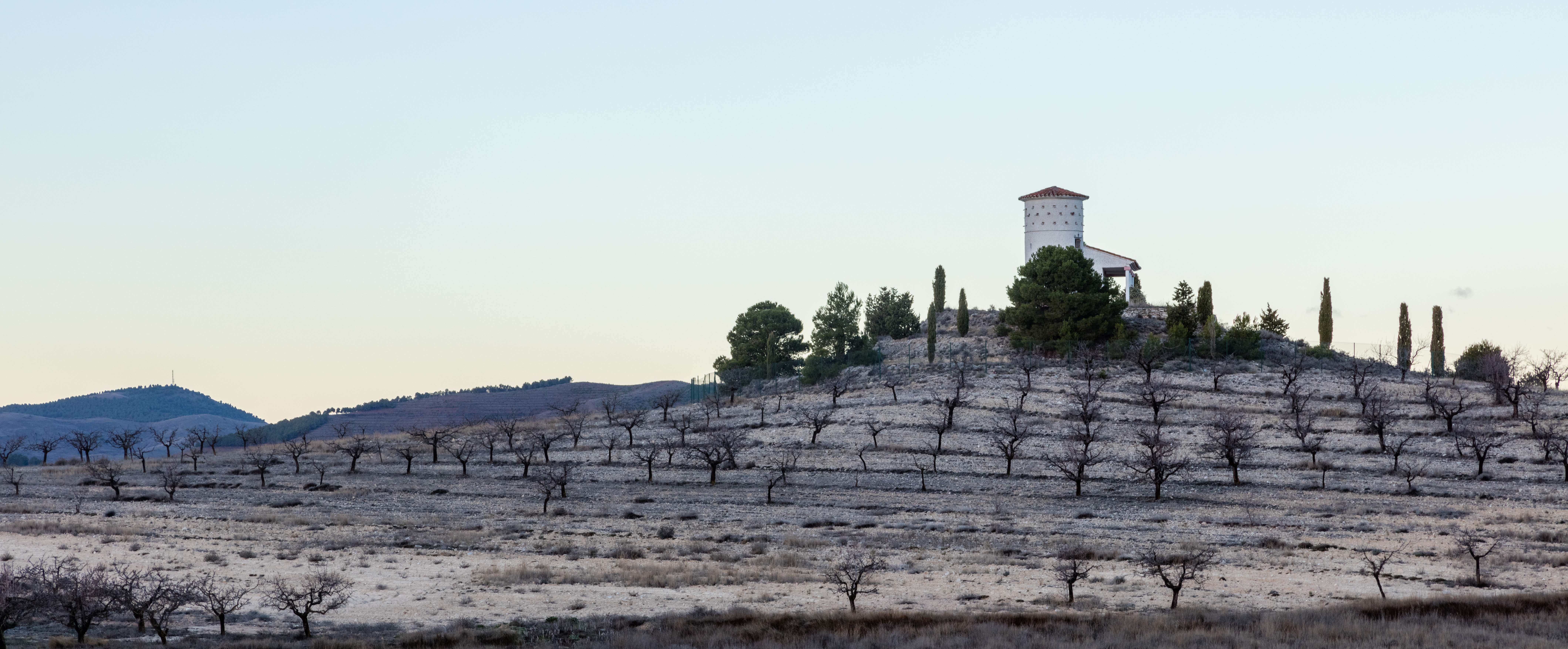 Summer house, Munébrega, Zaragoza, Spain